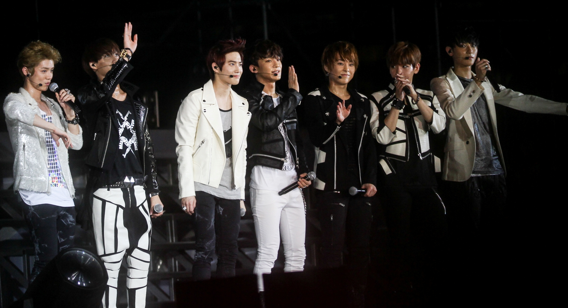 Exo performs SMTown Live in Singapore